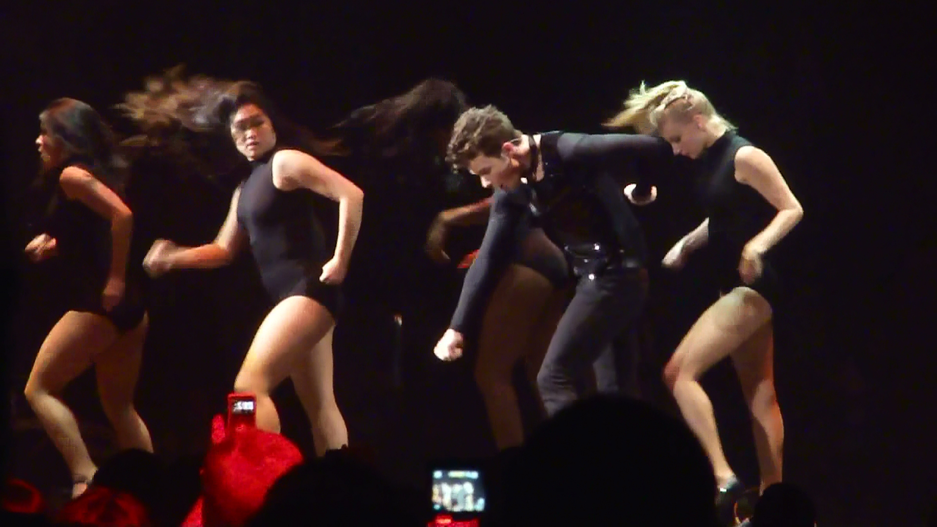 Chris Colfer, Jenna Ushkowitz, and Heather Morris perform the "Single Ladies" dance as part of the Glee Live tour in New York on June 18, 2011